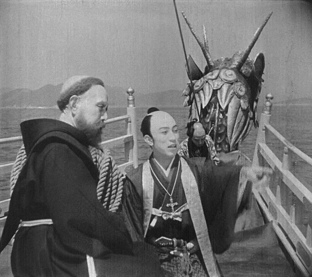 Junkyō kesshi Nihon nijūroku seijin (殉教血史 日本二十六聖人) directed by Tomiyasu Ikeda - 1931